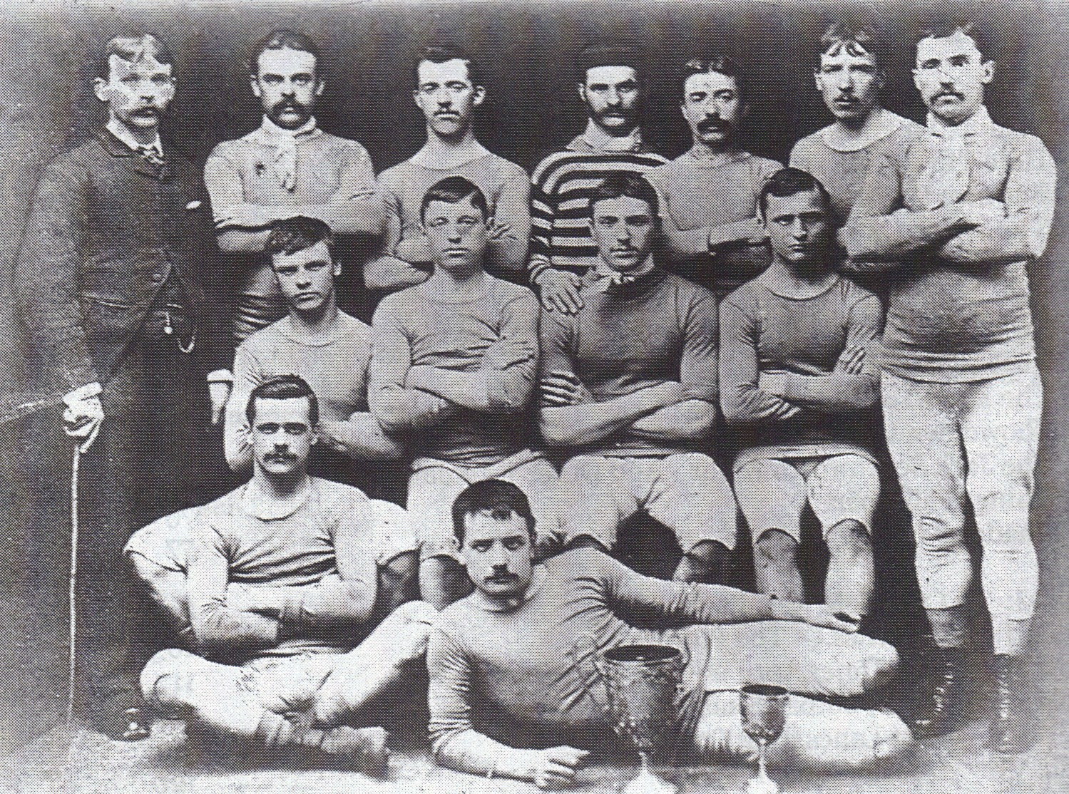 The Blackburn Olympic F.C. team of 1882. Image found in , which gives no details of the photographer's identity, so it must be presumed to be unknown. This, and the age of the image (125 years) mean it is in the PD per the template shown.